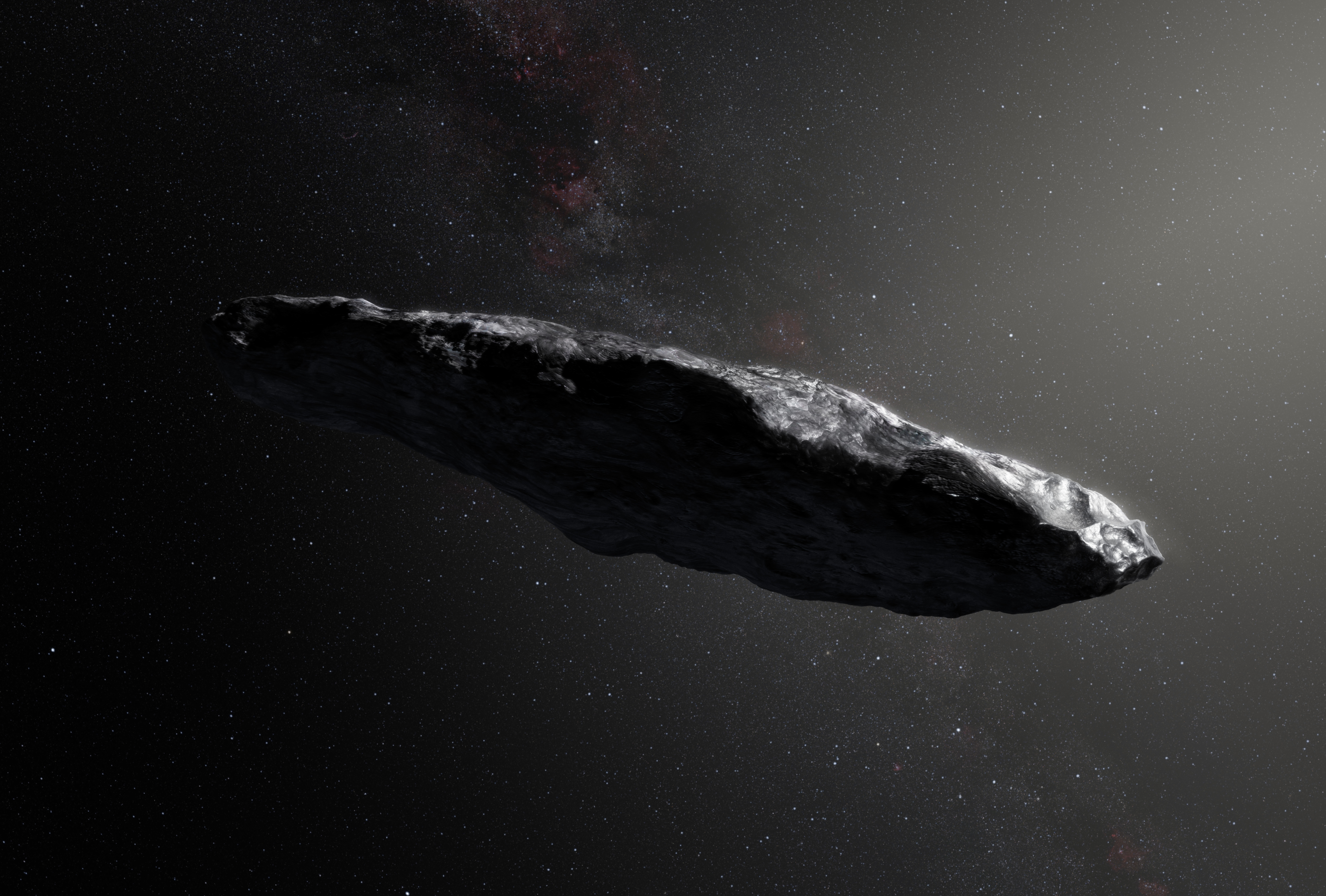 This artist’s impression shows the first interstellar asteroid, `Oumuamua. Observations from ESO’s Very Large Telescope in Chile and other observatories around the world show that this unique object was travelling through space for millions of years before its chance encounter with our star system. It seems to be a dark red highly-elongated metallic or rocky object, about 400 metres long, and is unlike anything normally found in the Solar System.